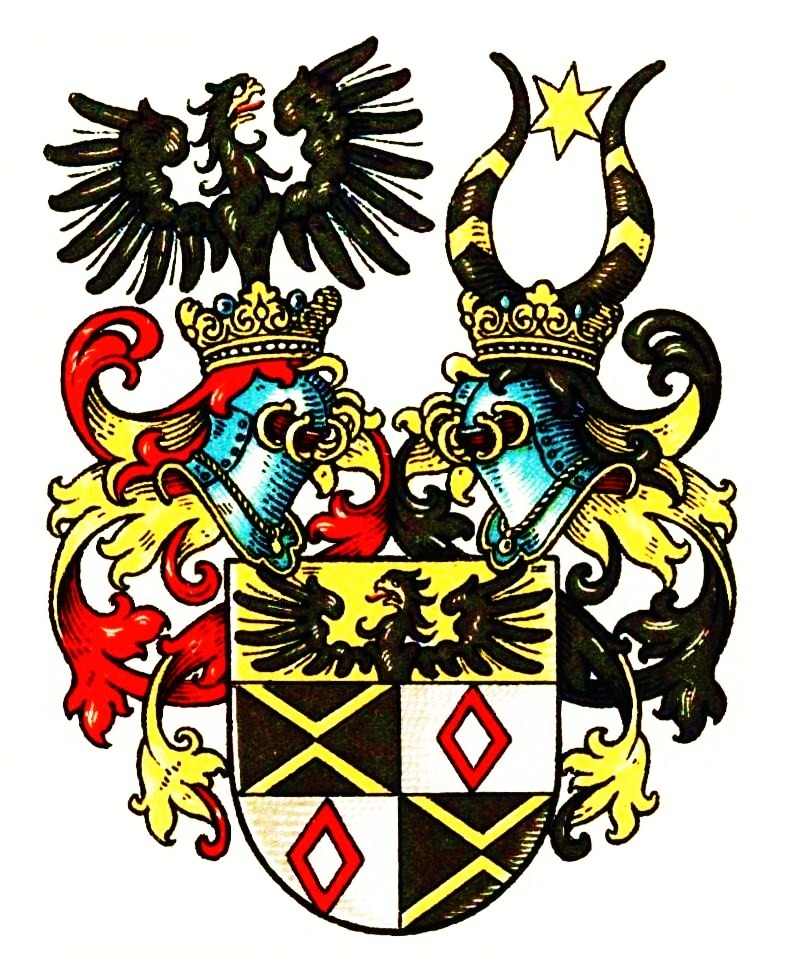 Coat of arms Hymmen